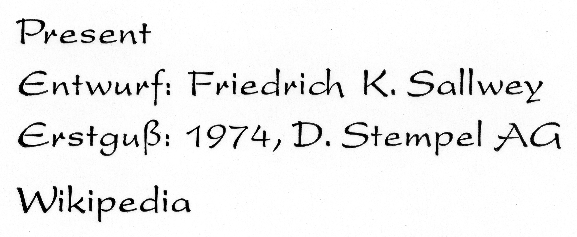 Present, last Font made of Lead by D. Stempel AG (Foundry), Frankfurt/Main. Design: Friedrich Karl Sallwey; First published: 1974; Originalprint Letterpress for Wikipedia